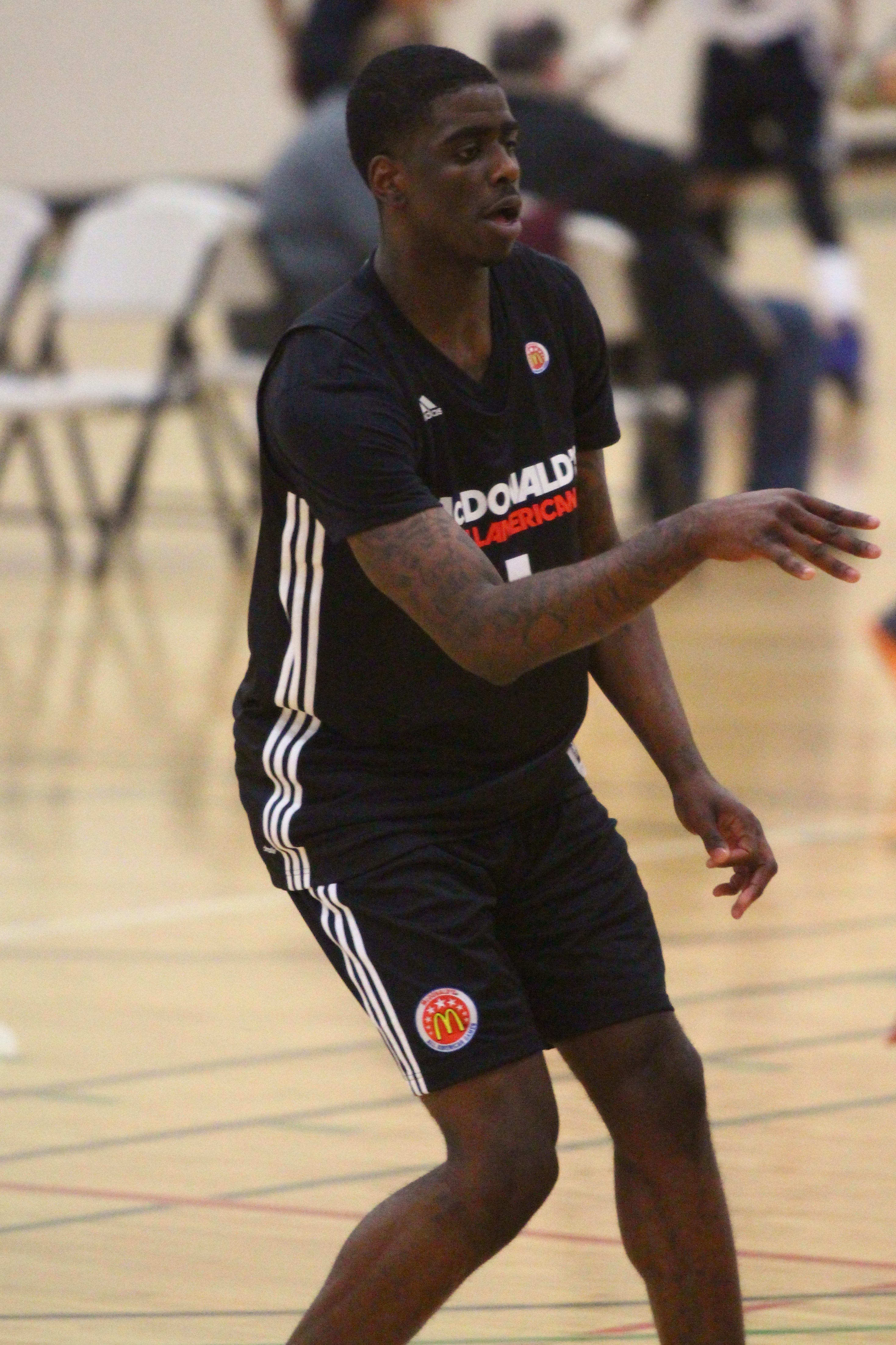 Dwayne Bacon in the w:2015 McDonald's All-American Boys Game closed practice